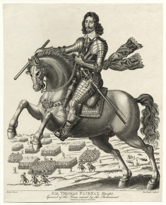 "Thomas Fairfax, 3rd Baron Fairfax of Cameron," line engraving attributed to Francis Engleheart (1775-1849), engraver, published by Edward Jeffery (active 1777-1837), publisher and bookseller, after Edward Bower (active 1629-died 1667), portrait painter, published in 1808, 11 1/2 in. x 9 1/8 in. (291 mm x 233 mm) paper size, National Portrait Gallery, London, Reference Collection: NPG D27098